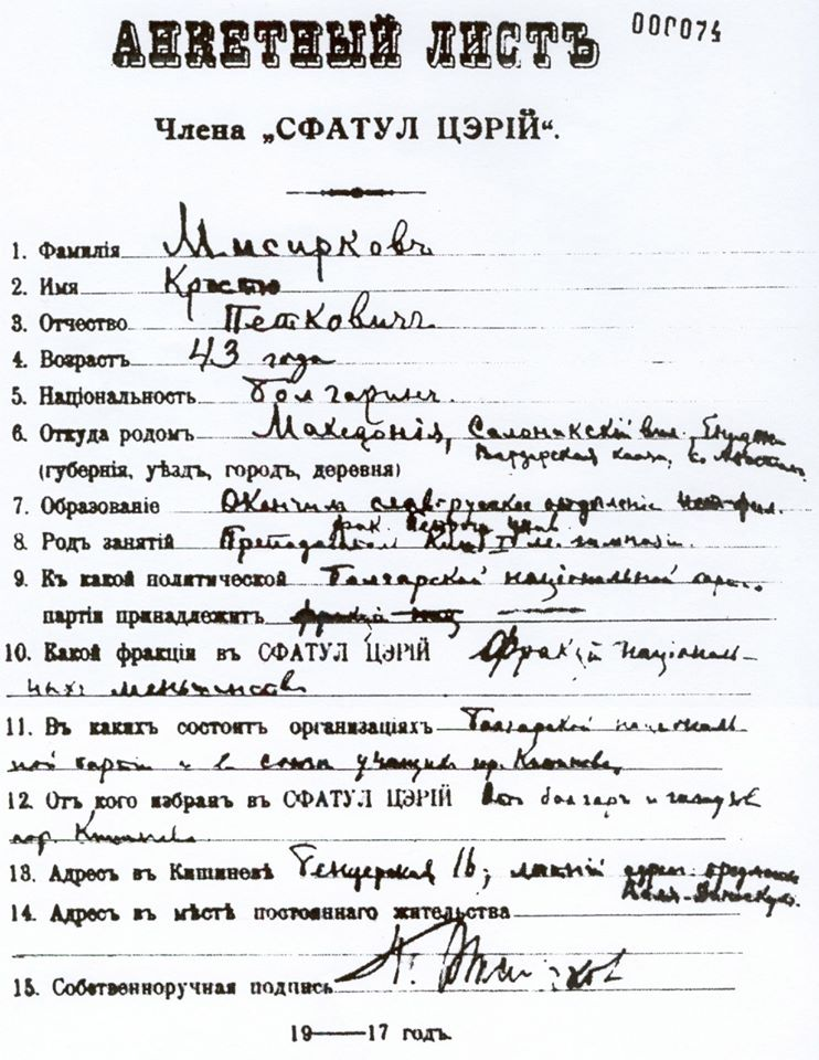 Document from the National Archives of the Republic of Moldova - File No. 727, Inventory No. 2, Document No. 77, page 23.